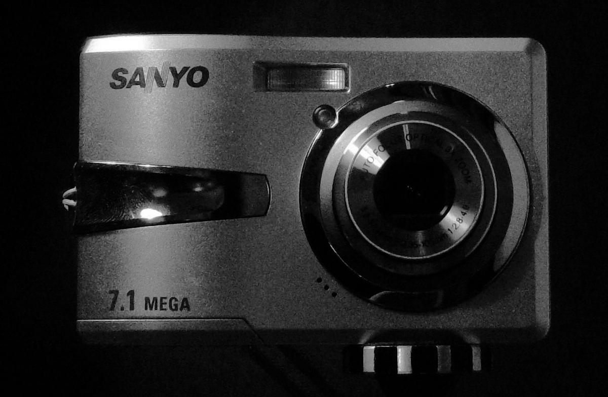 digital camera "Sanyo VPC-S760" (on tripod), bought in 2008 in Germany, size: 92mm wide, 60mm high - picture taken with the camera and mirror, edited